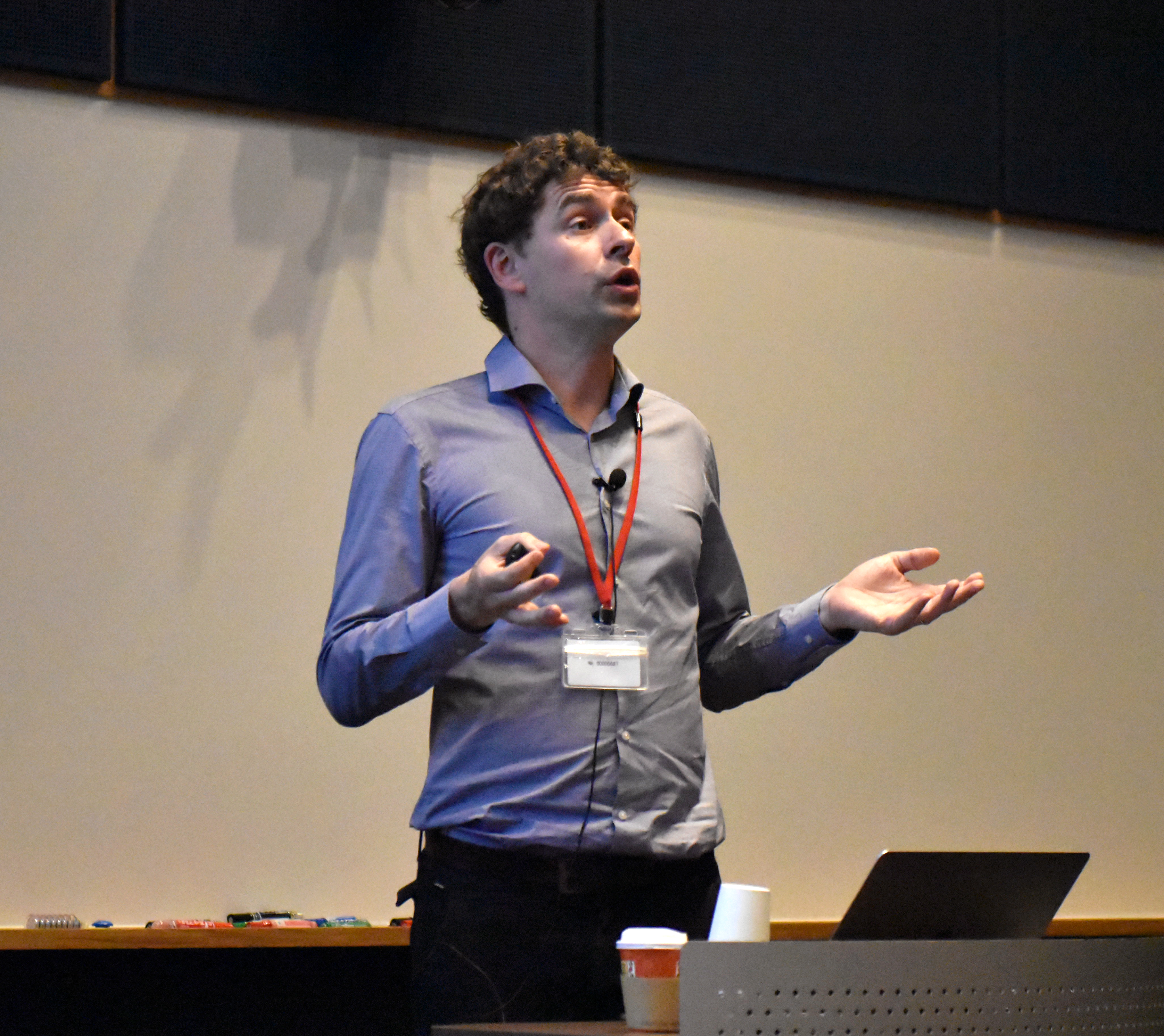 Professor Johannes Krause of the Max Planck Institute gave a lecture to a full audience uncovering the genetic history of the Ryukyuans | OIST学長主催レクチャーシリーズ ドイツのマックス・プランク人類史学研究所所長 ヨハネス・クラウゼ博士による「琉球民族の遺伝的起源」の講演